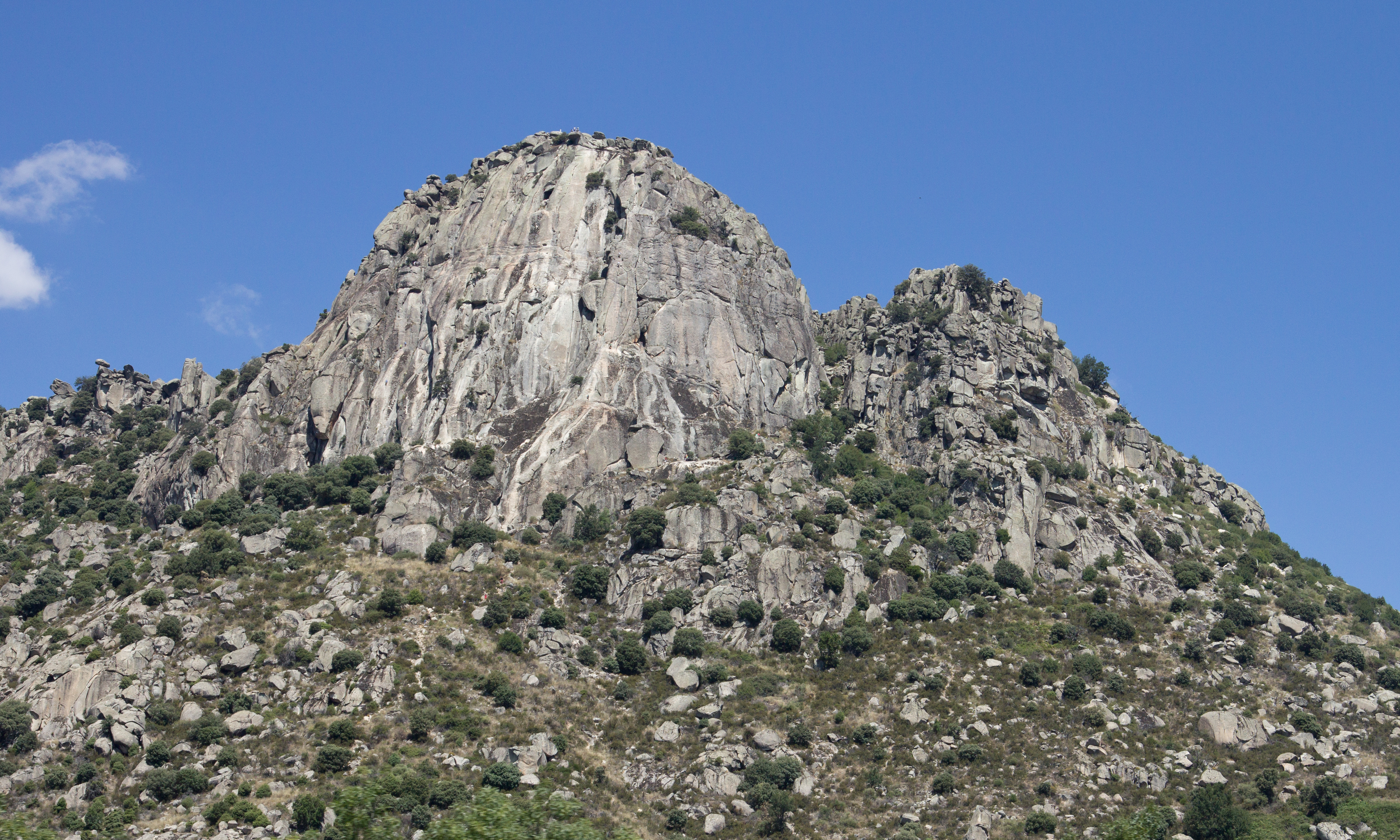 Pico de la Miel (Honey Peak), Sierra de La Cabrera, Community of Madrid, Spain.